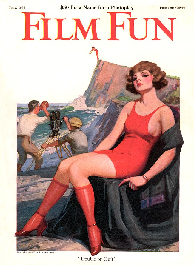 Cover of Film Fun magazine.